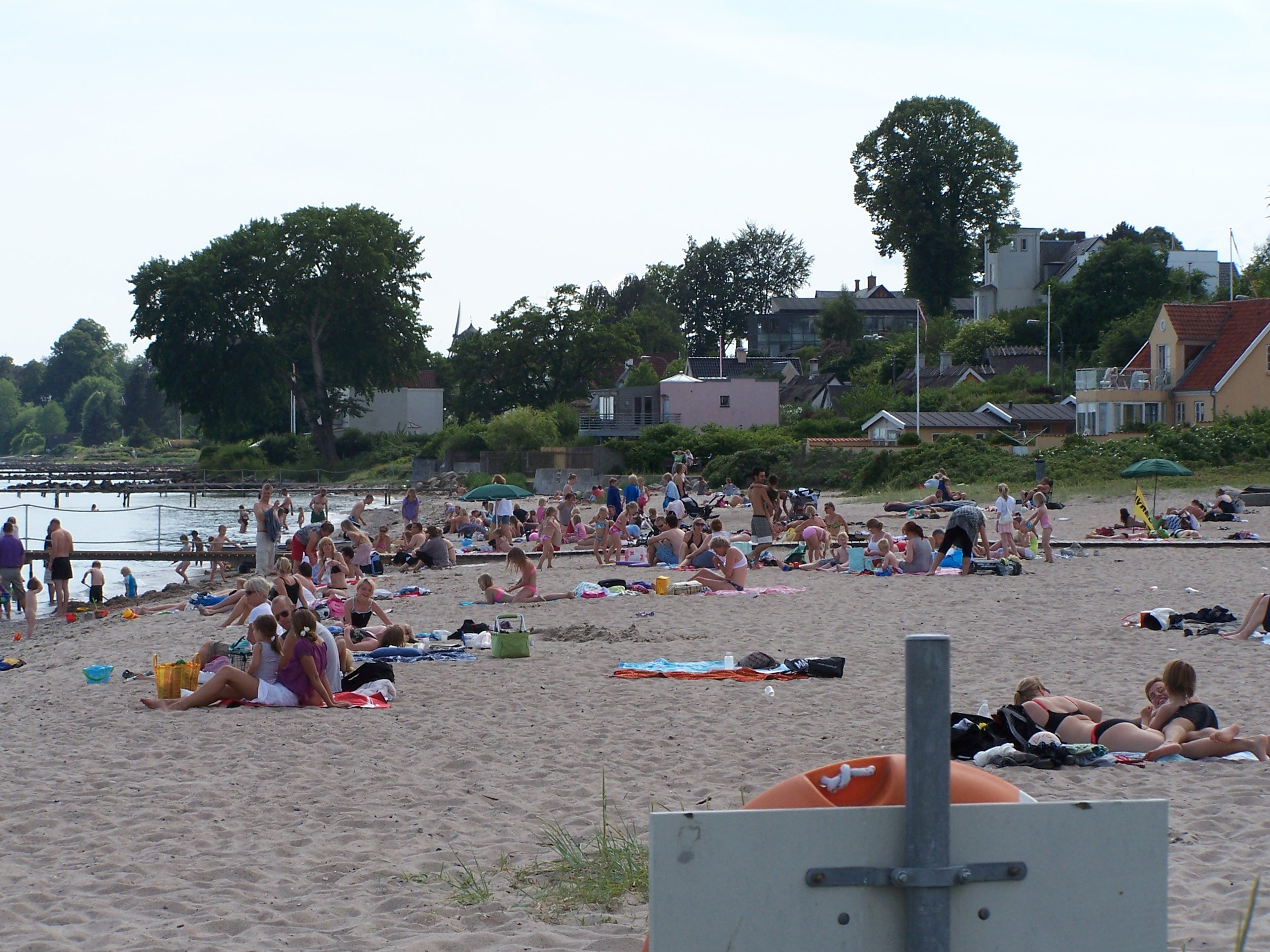 Espergærde Beach